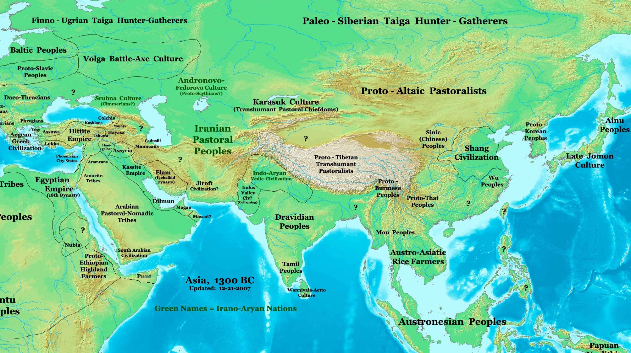 This image is a zoomed-in version of Eastern Hemisphere in 1300 BC. thumb|300px|left|Eastern Hemisphere in 1300 BC. Author: Thomas A. Lessman. Source URL: Image was created by me (Thomas Lessman) based on map of Eastern Hemisphere in 1300 BC. Image is free for public and/or educational use. I would appreciate a mention if this image is used elsewhere. If anyone is interested in helping further this work, please contact Thomas Lessman at . Other Historical Maps by Thomas Lessman 1. en: 500 BC. 2. en: 323 BC. 3. en: 200 BC. 4. en: 100 BC. 5. en: 050 BC. 6.en: 001 AD. 7. en: 050 AD. 8. en: 100 AD. 9. en: 200 AD. 10. en: 300 AD. 11. en: 400 AD. 12. en: 475 AD. 13. en: 476 AD. 14. en: 477 AD. 15. en: 500 AD. 16. en: 565 AD. 17. en: 600 AD. 18. en: 700 AD. 19. en: 800 AD. 20. en: 900 AD. 21. en: 1025 AD. 22. en: 1100 AD. 23. en: 1200 AD.